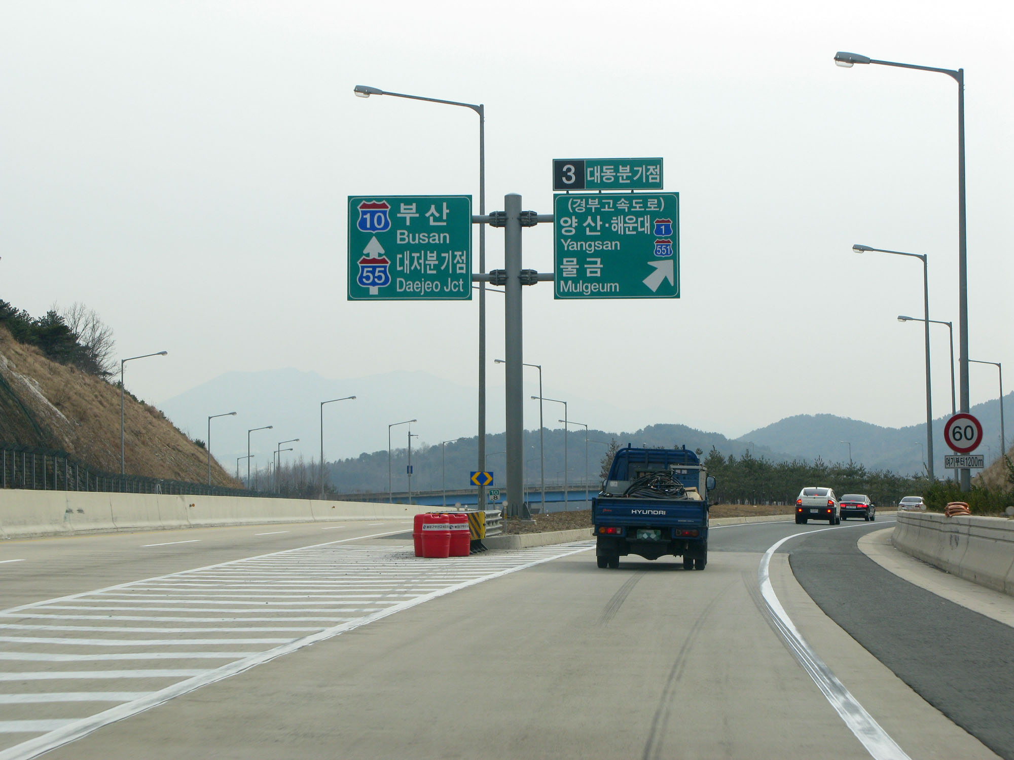 Jungang, Jungang Branch, Daegu-Busan Expressway Daedong JCT